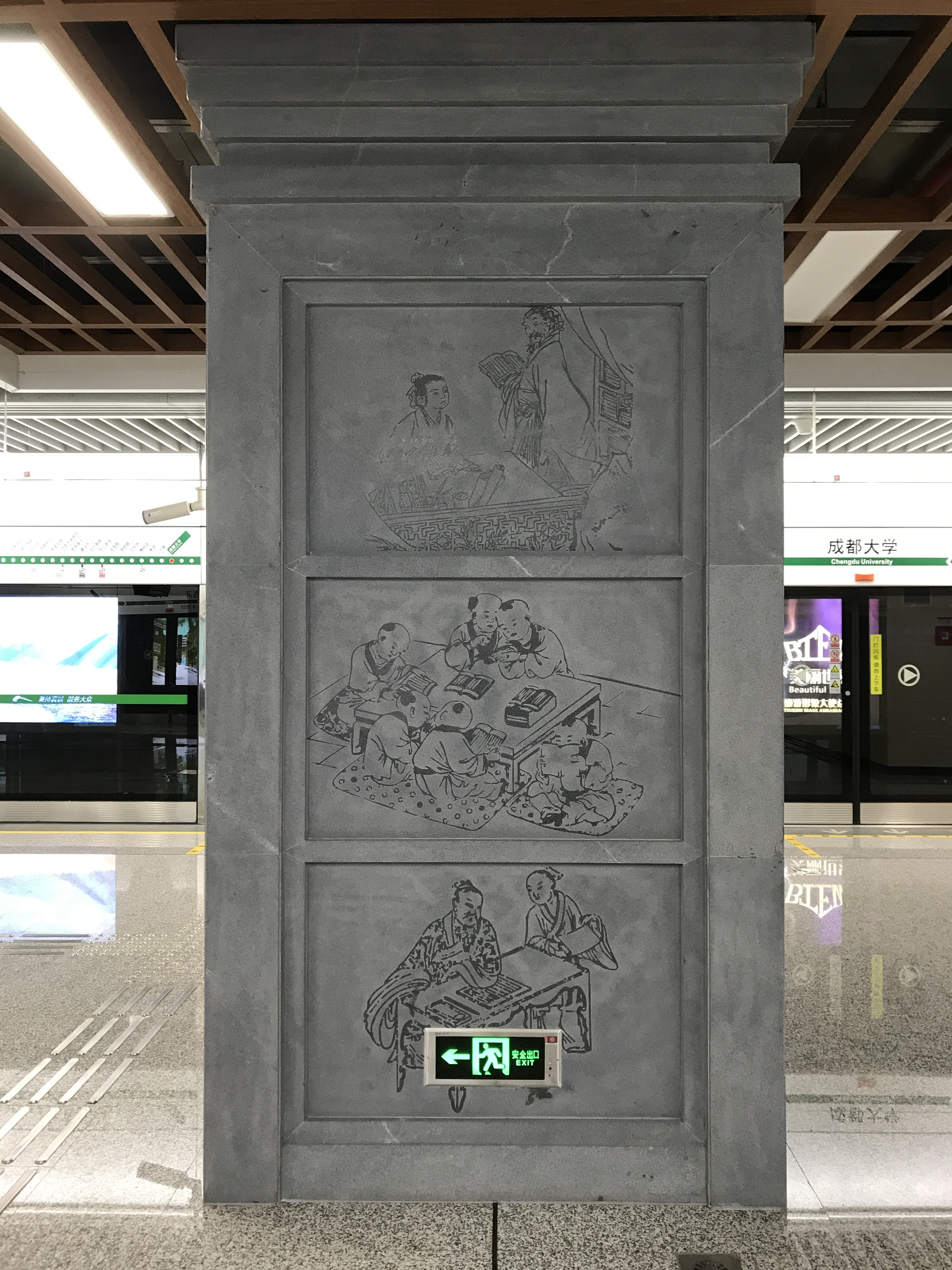 Chengdu Metro Chengdu University Station